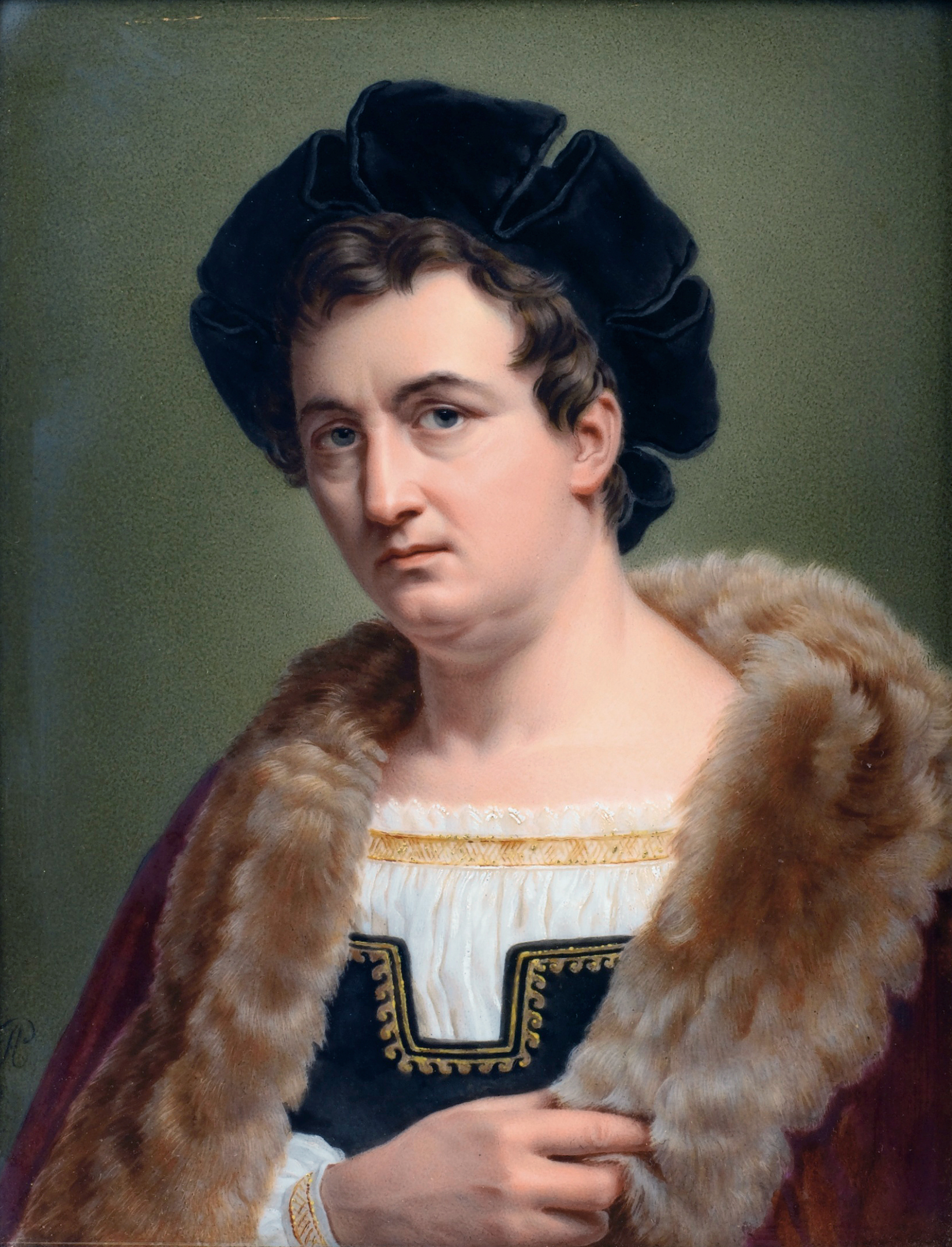 François-Joseph Talma (1763-1826) painting on porcelain 18,5 x 14 cm signed l.l.: AP inscribed (reverse): Portrait de Talma célèbre acteur tragique Aimée Perlet an 1823